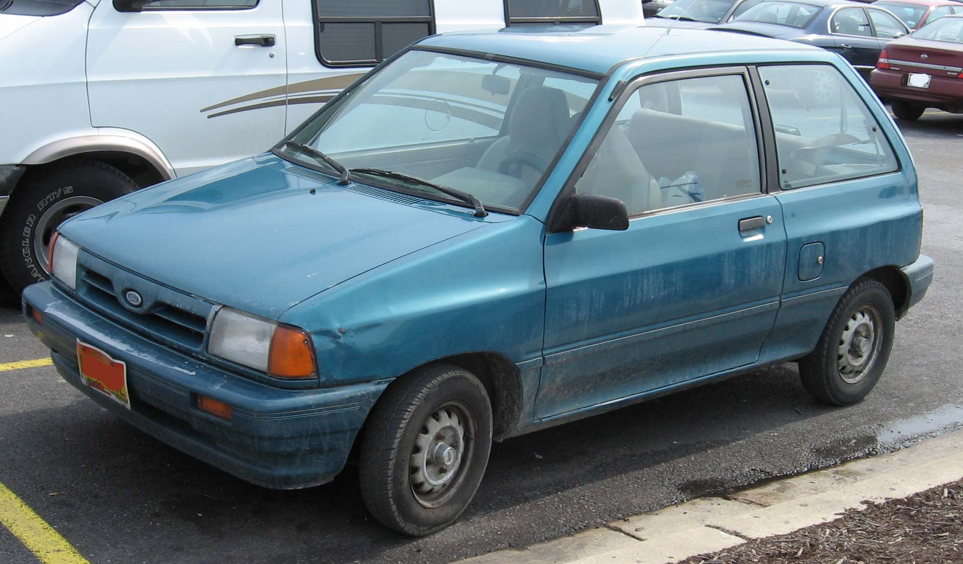 1986-1993 Ford Festiva photographed in USA.